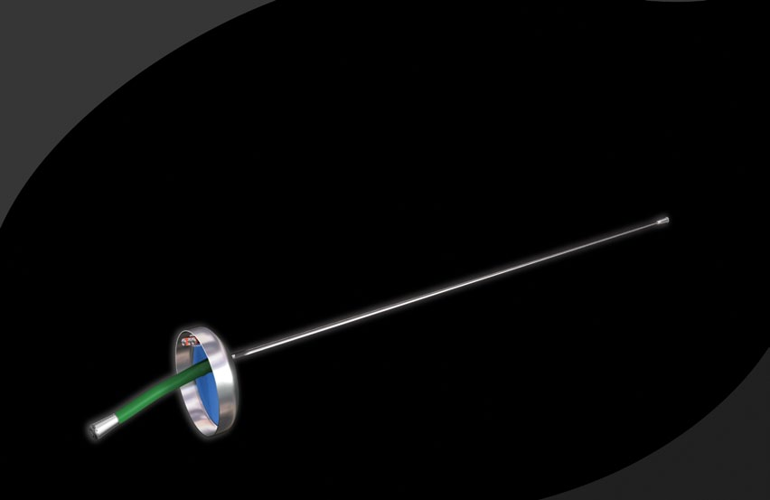 fencing (épée)